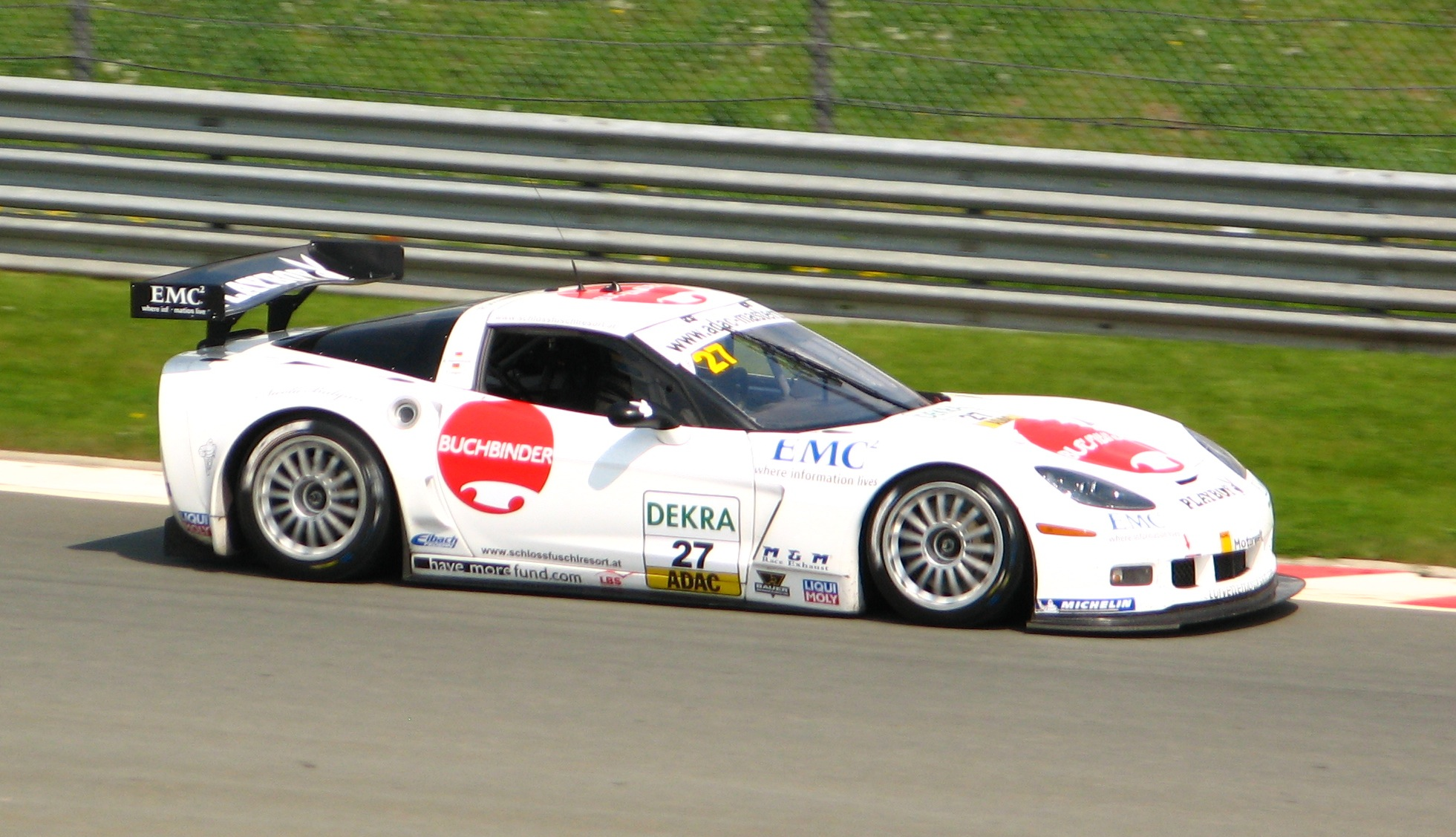 Thomas Jäger, Callaway Competition (Corvette Z06.R GT3)